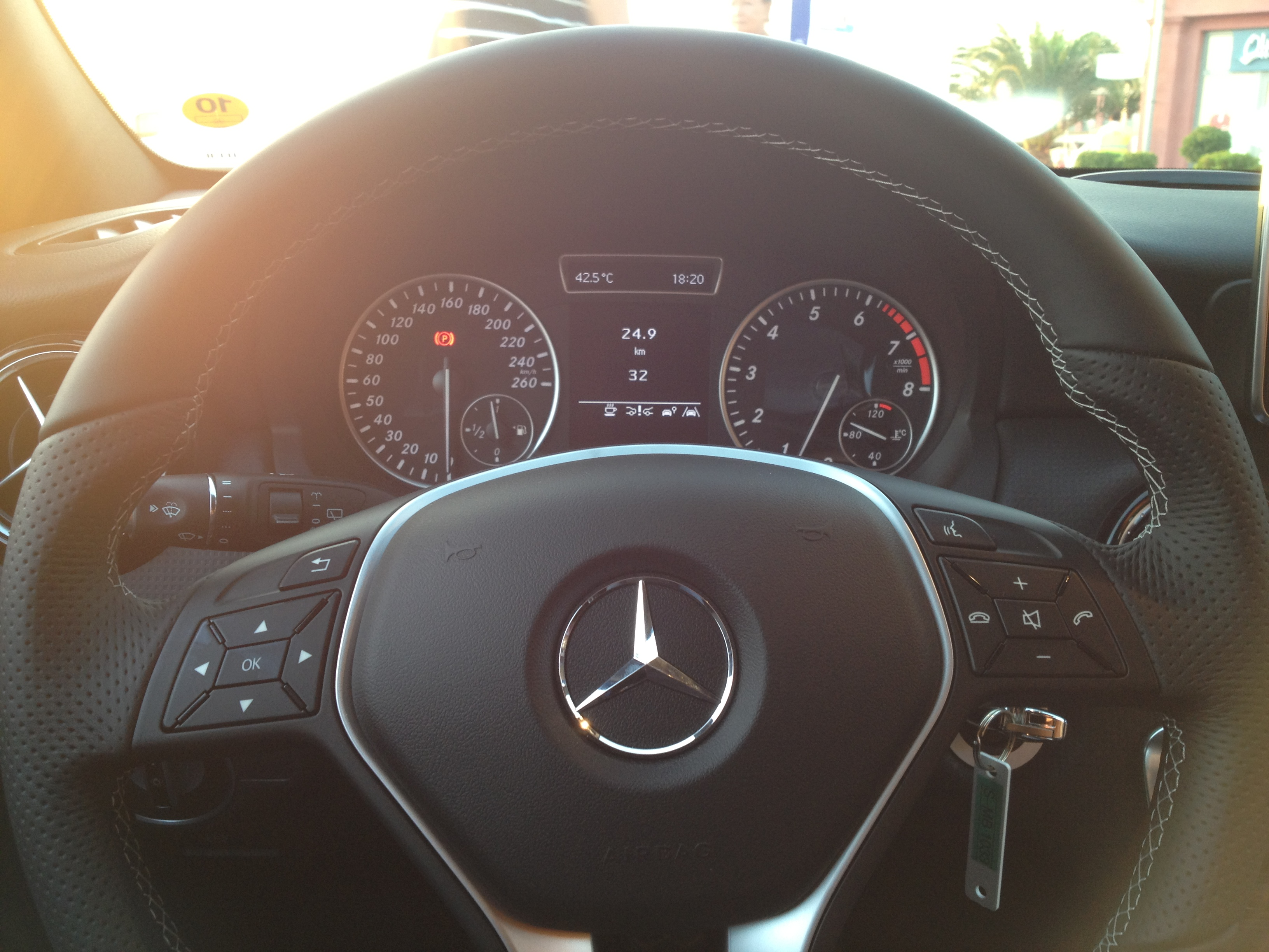 Mercedes A-Class 2012.